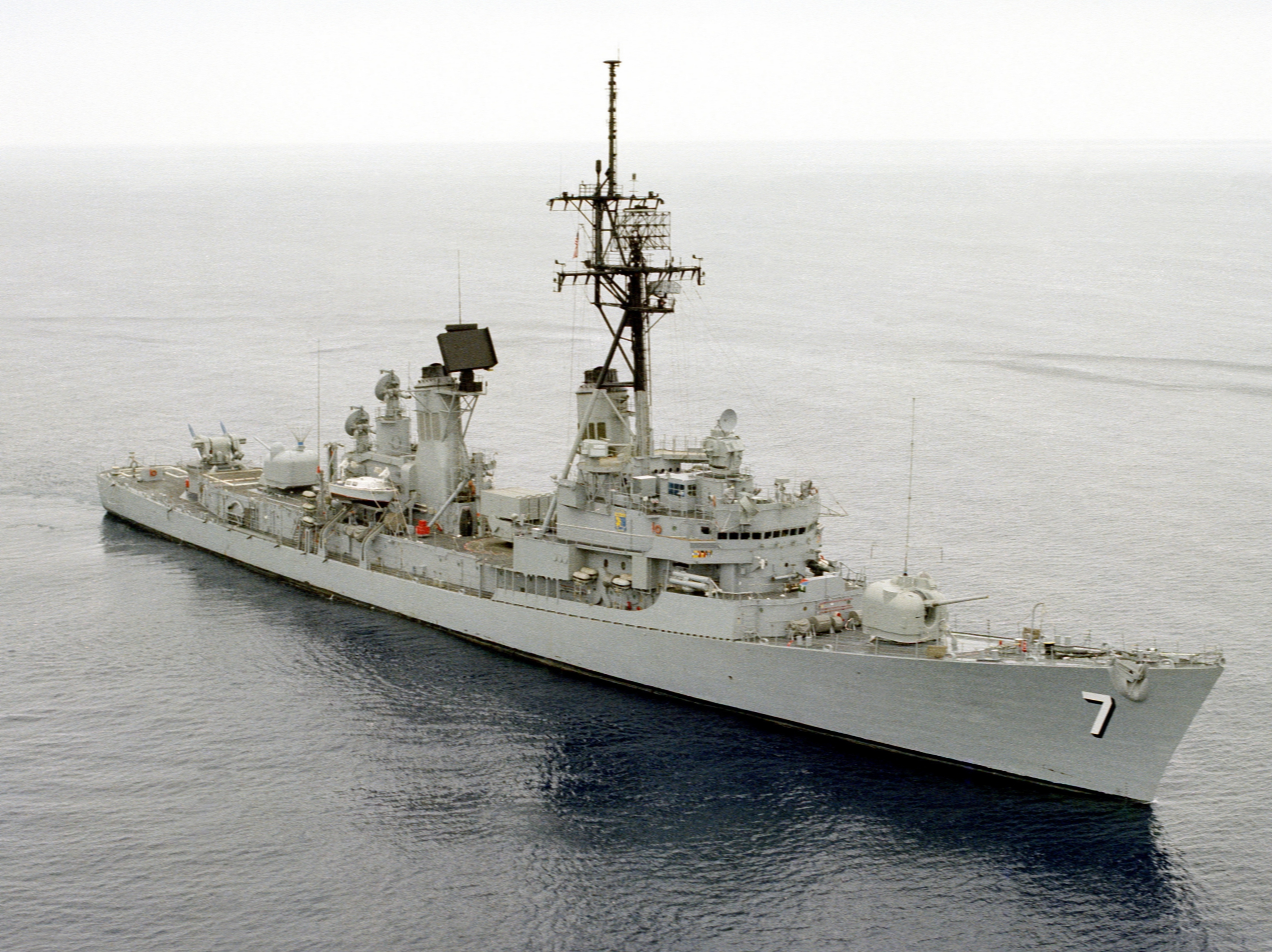 An aerial starboard bow view of the guided missile destroyer USS Henry B. Wilson (DDG-7). Note that she still carries the AN/SPS-37 radar on her foremast.